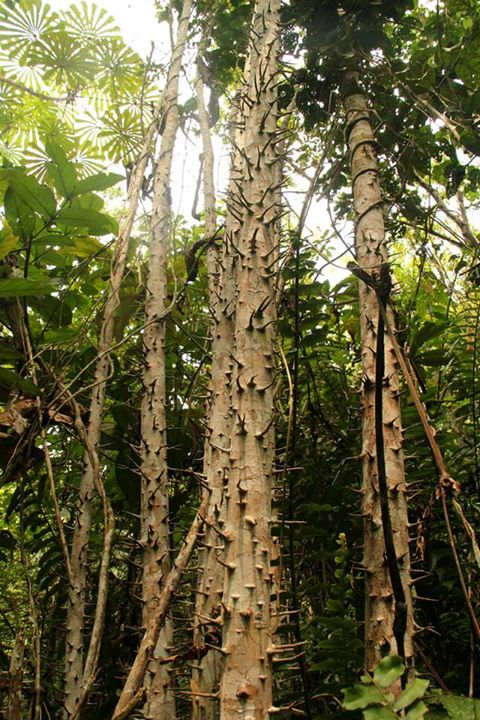 Macaranga spinosa - Yangambi, Central Democratic Republic of the Congo